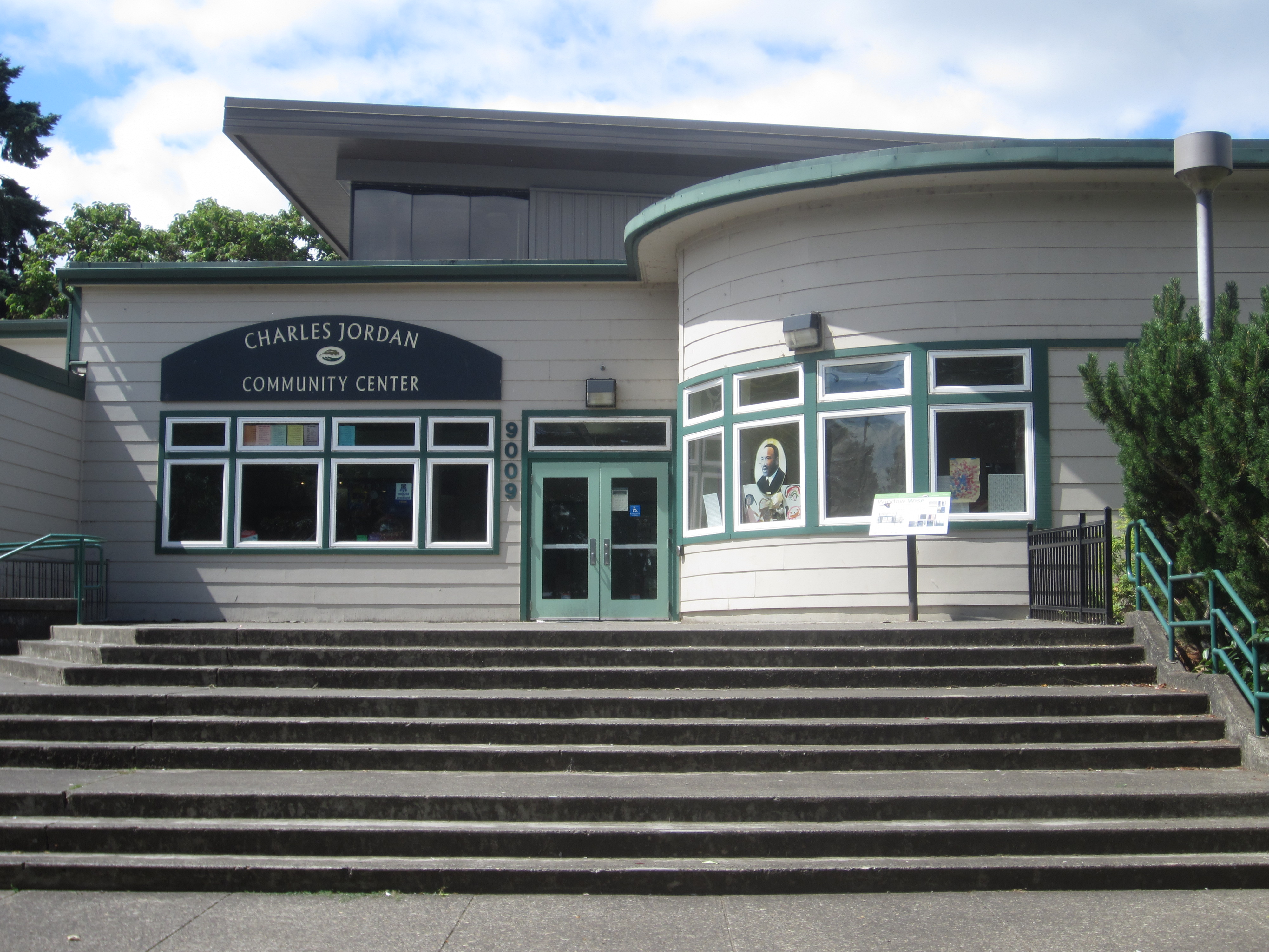 North Portland, Oregon (2019)